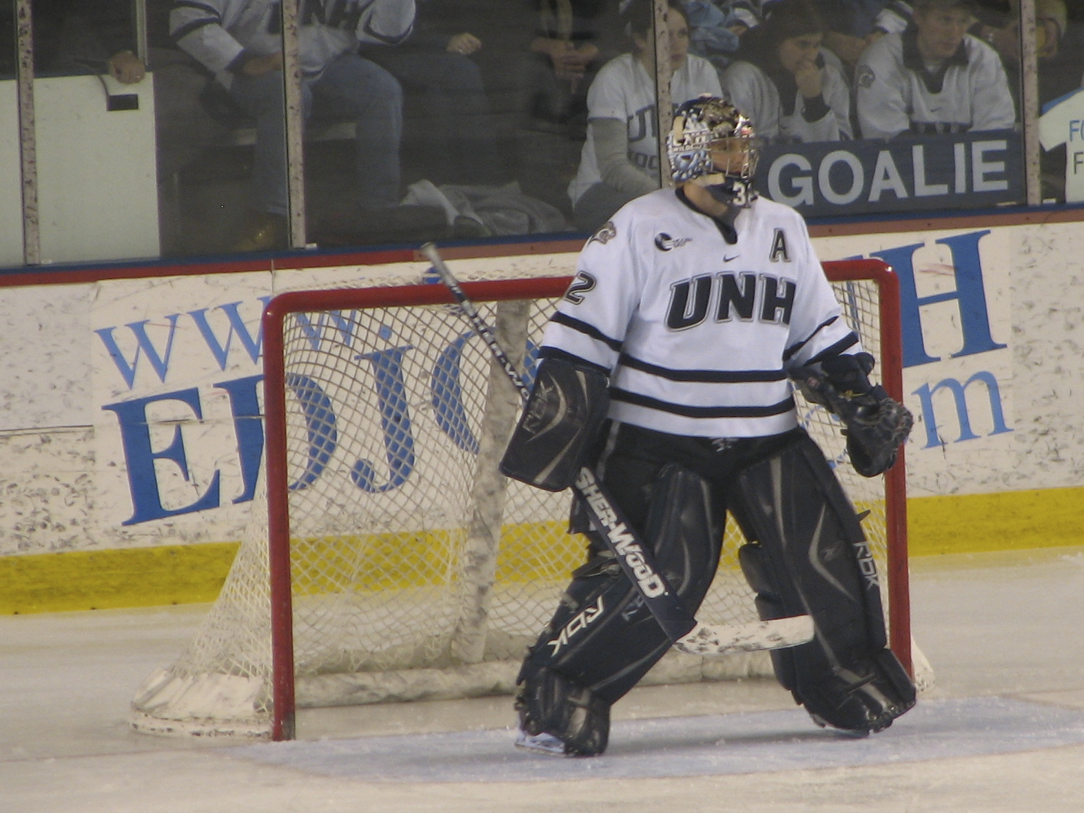 Kevin Regan, goalie of the Wildcats, University of New Hampshire, Hockey East